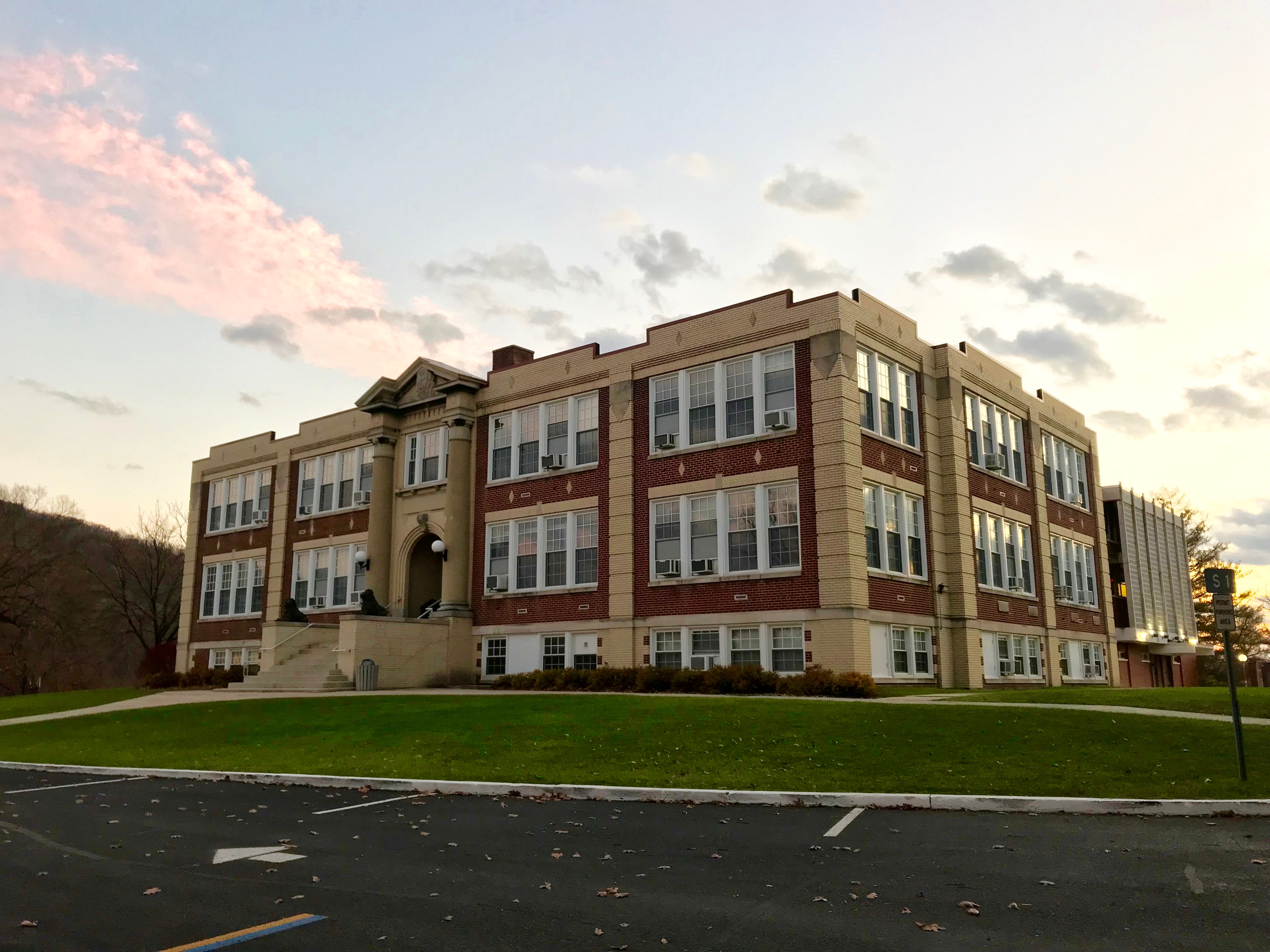 Administration Building (1919) is an administrative office building along Campus Drive on the campus of Potomac State College of West Virginia University in Keyser, West Virginia.